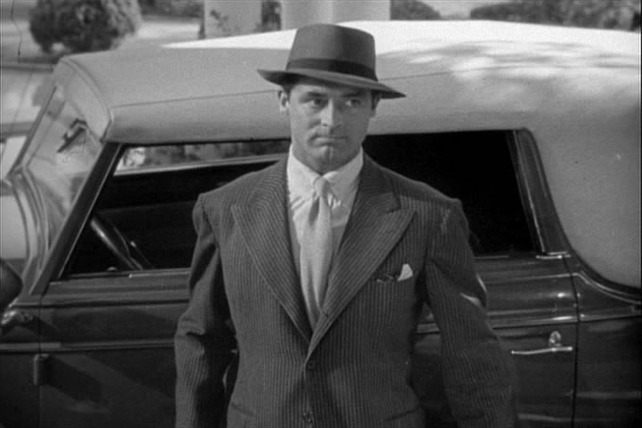 Cary Grant in The Philadelphia Story trailer